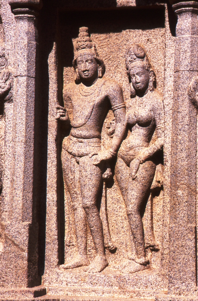 Shore Temple, Mahabalipuram, Tamil Nadu, India